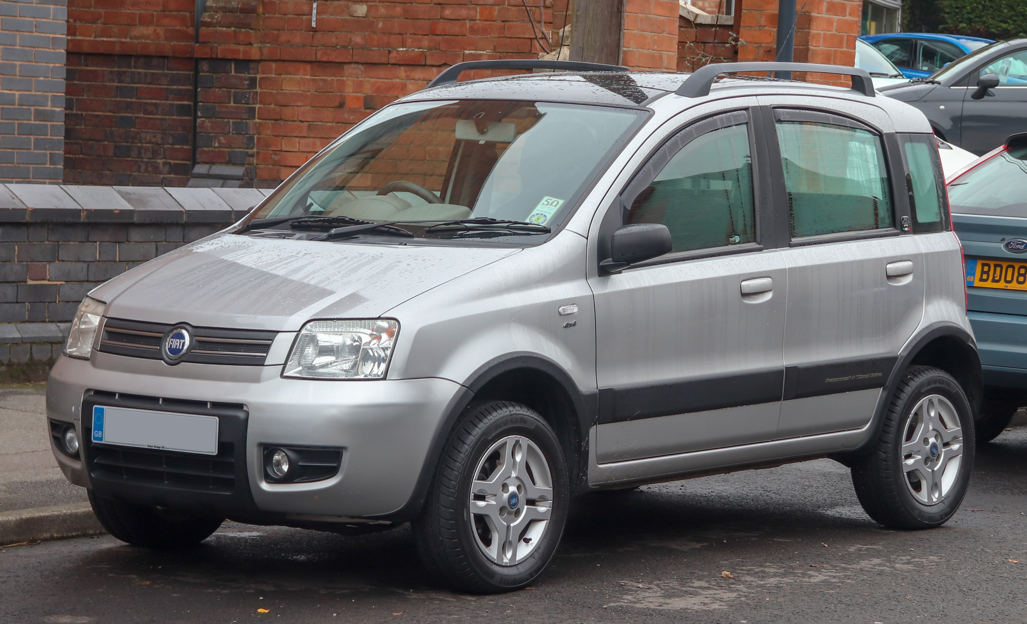 2005 Fiat Panda 4X4 1.2 Front Taken in Warwick